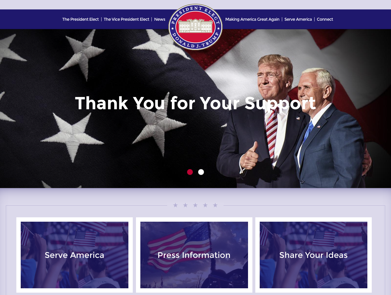 The screenshot of the President Elect Donald J. Trump website since November 9, 2016.